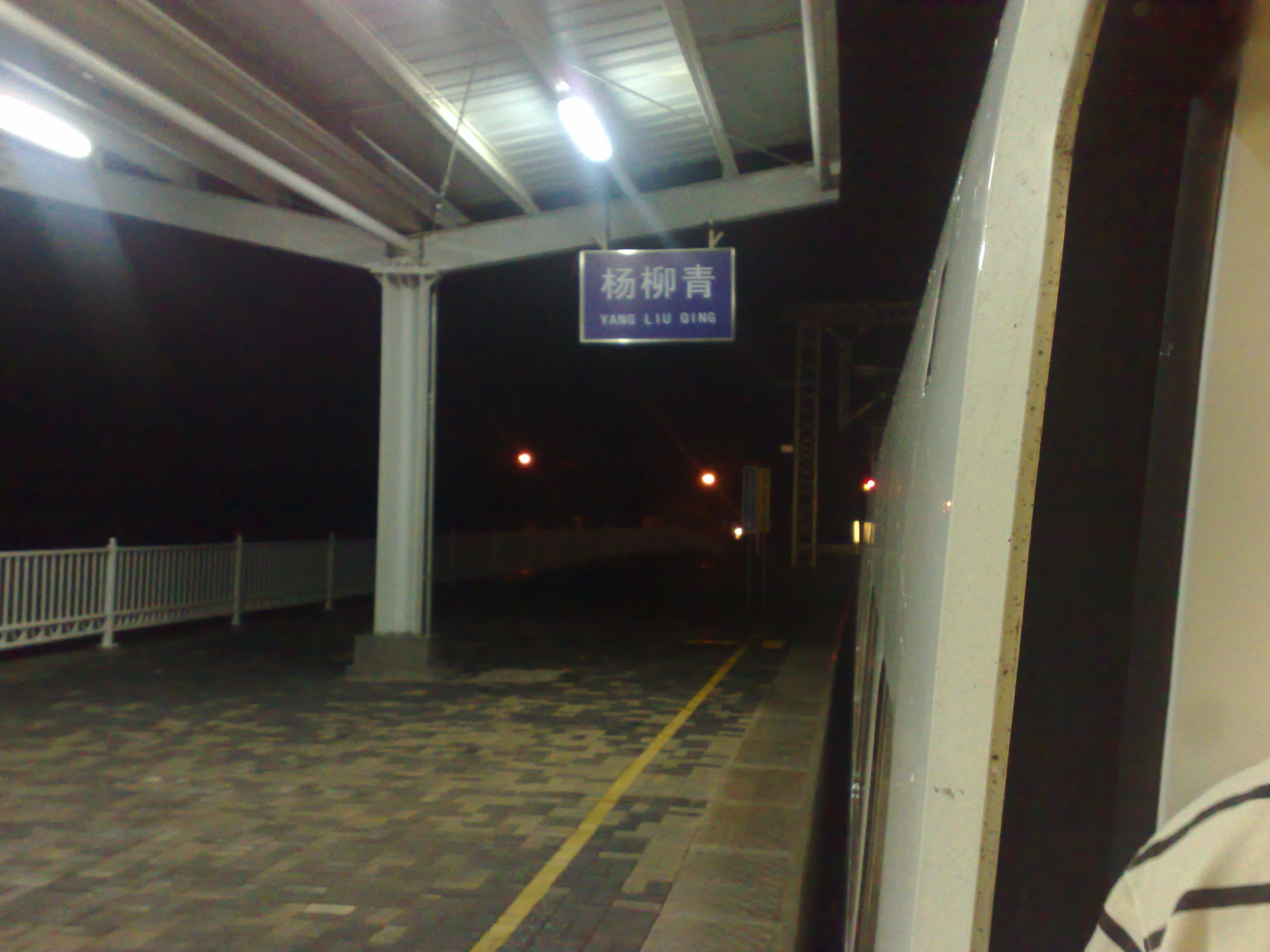 Yangliuqing Railway Station